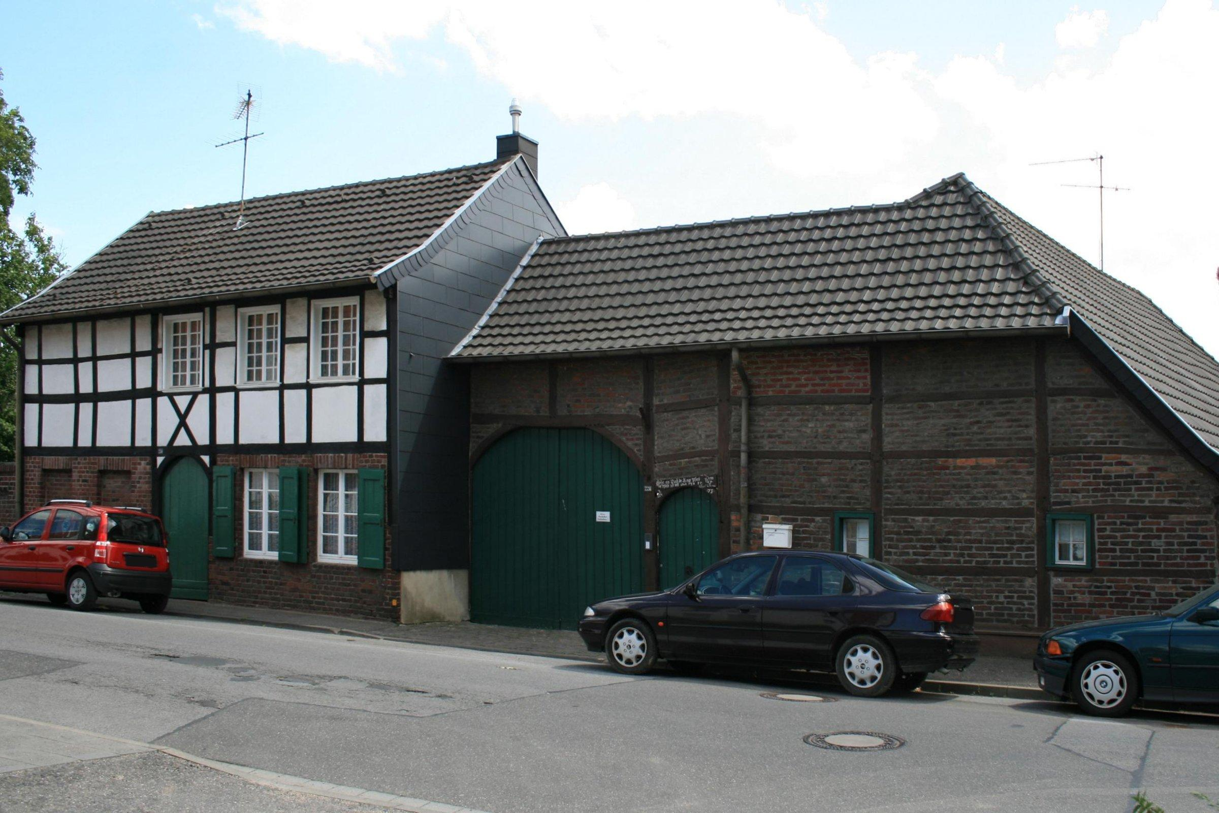 Cultural heritage monument No. Sch 004 in Mönchengladbach